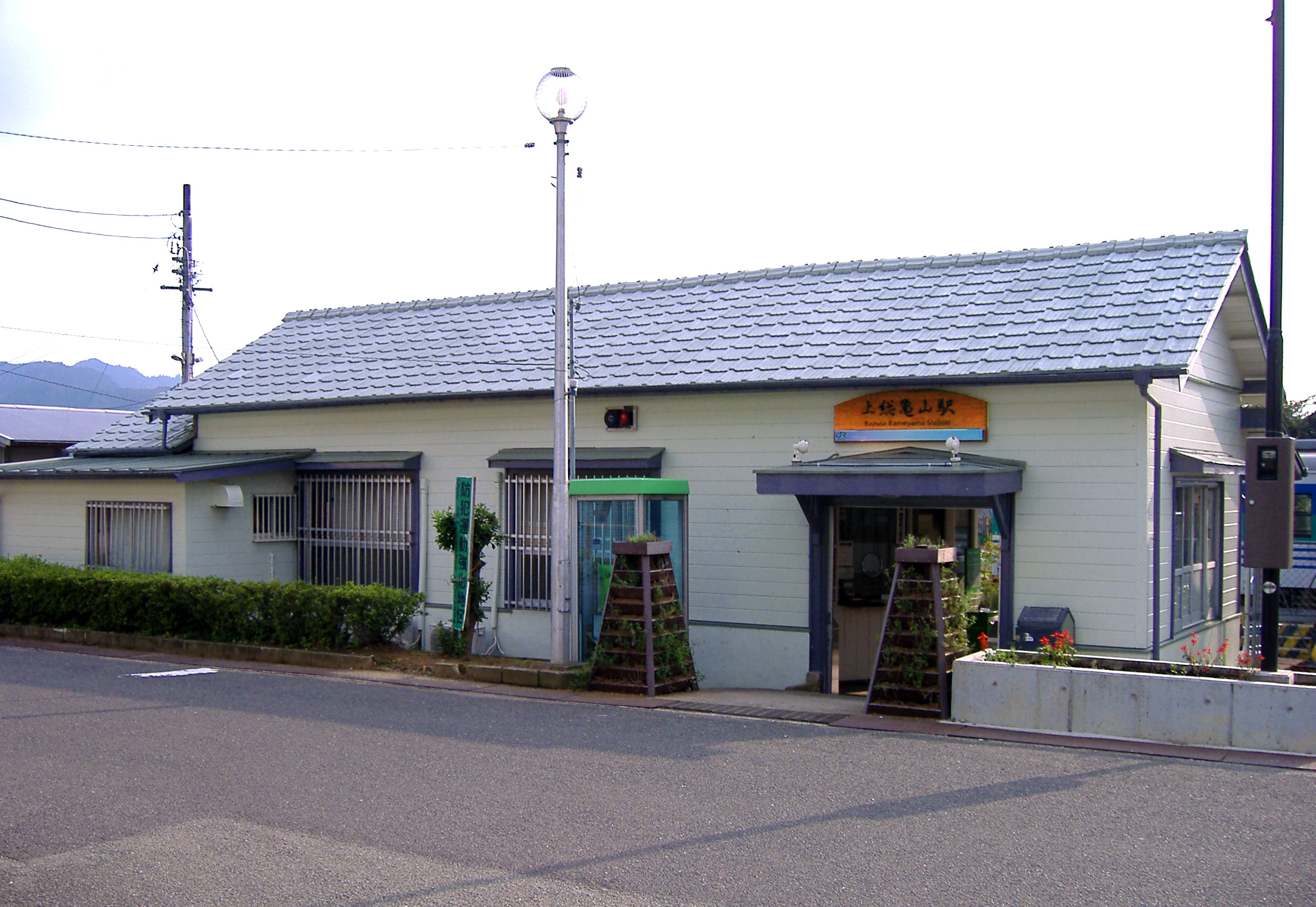 Kazusa-Kameyama Station on the Kururi Line